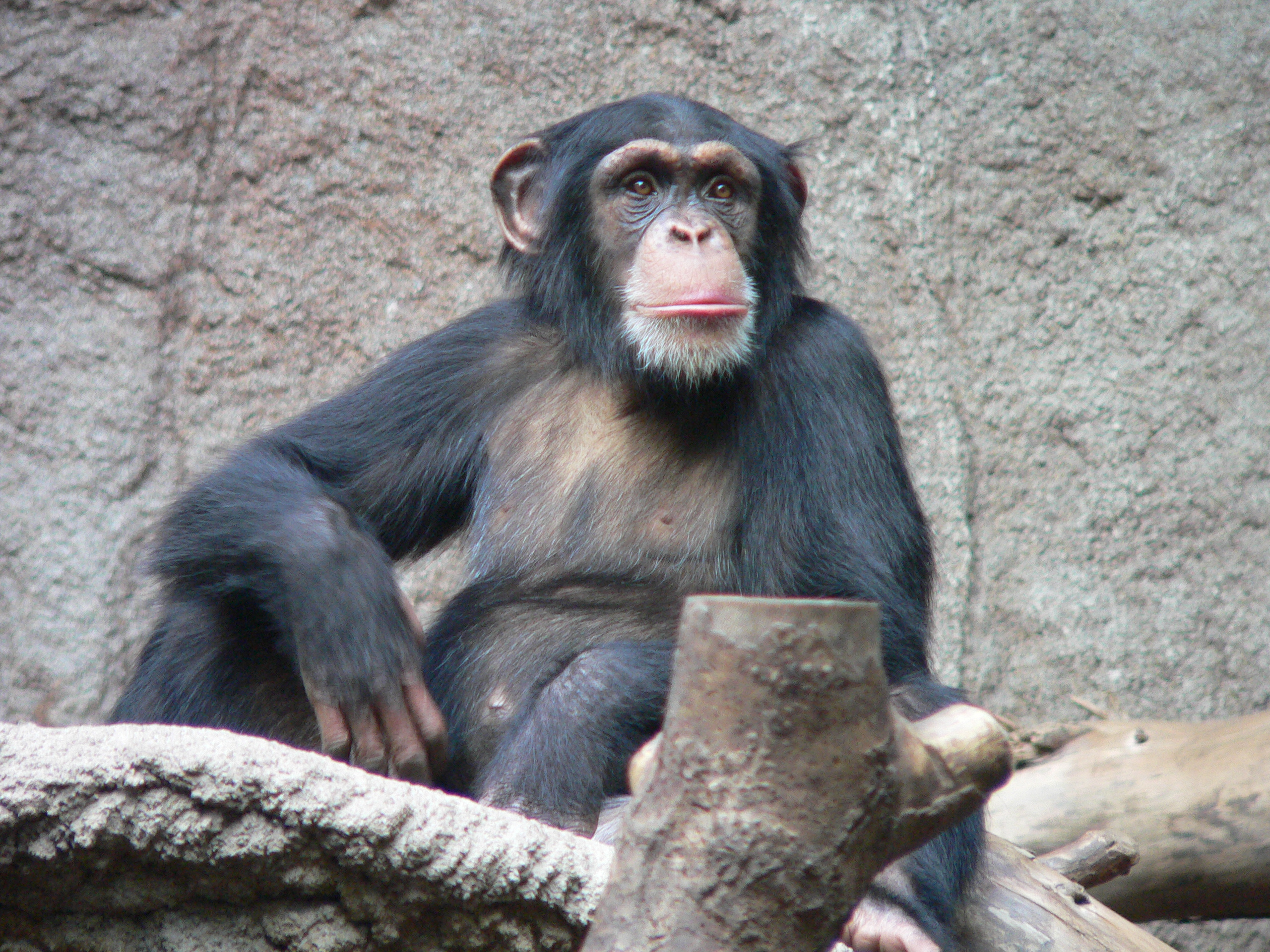 Common Chimpanzee in the Leipzig Zoo.